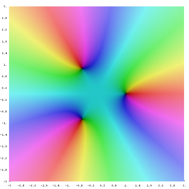 function z^3-1 in the complex plane